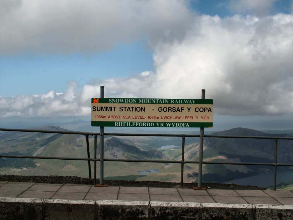 North Wales. This is a view one hopes to see at the end of a journey on the Snowdon Mountain Railway.